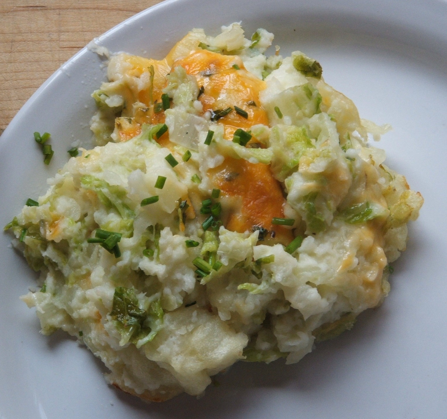 A serving of rumbledethumps. Rumbledethumps is a traditional dish from the Scottish Borders, United Kingdom. The main ingredients are potato, cabbage and onion. Similar to Irish colcannon, and English bubble and squeak, it is either served as an accompaniment to a main dish or as a main dish itself.